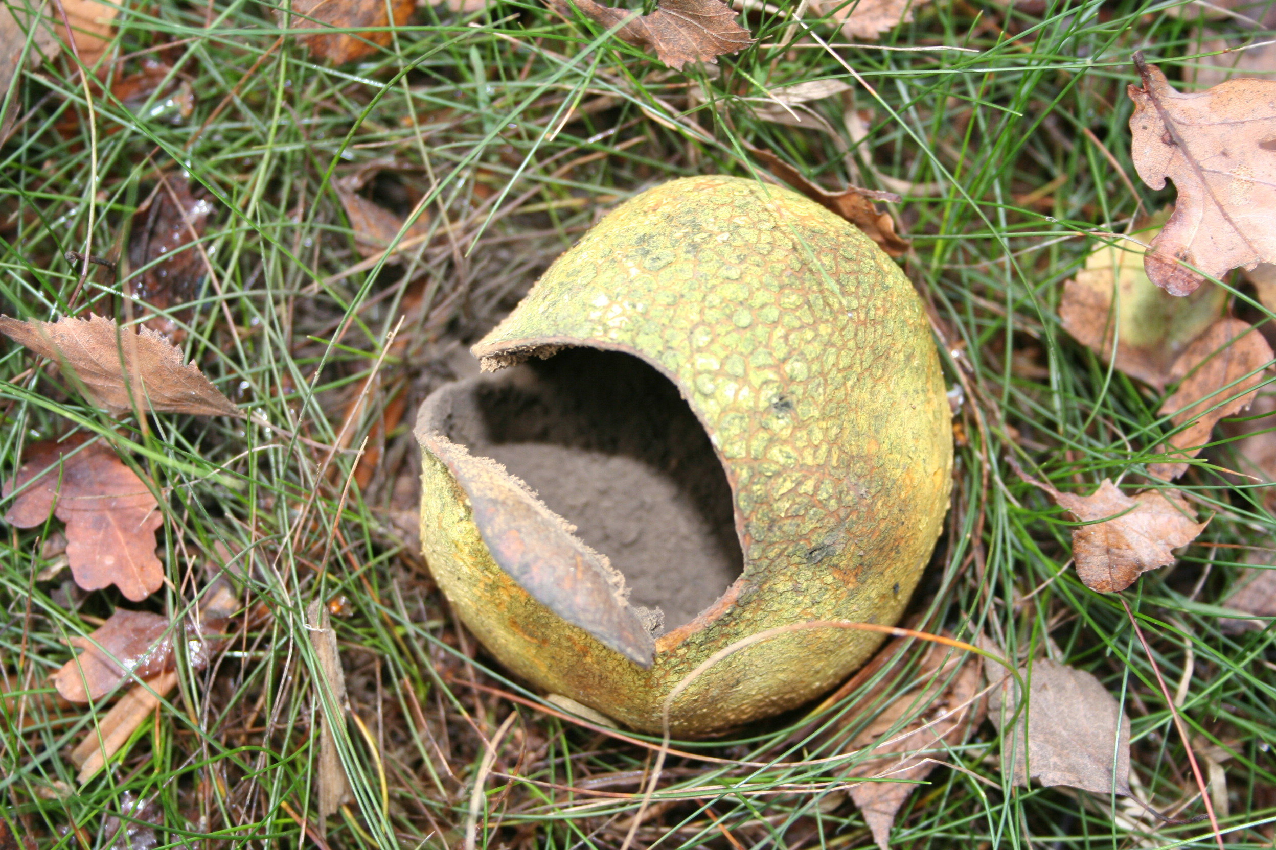 Scleroderma citrinum in a French wood near Rambouillet.